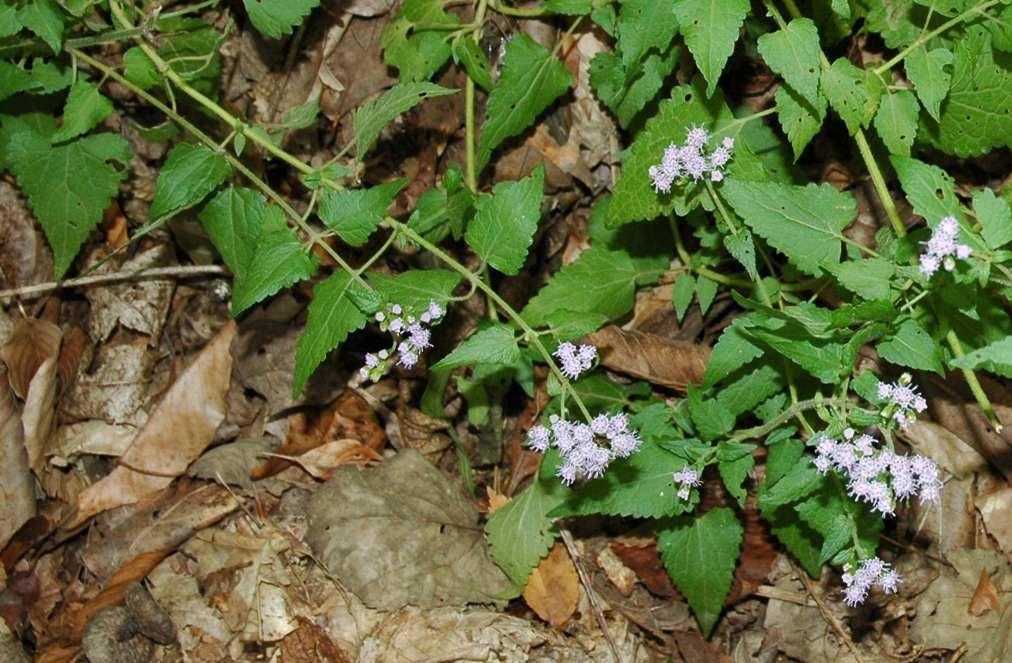 Image of Fleischmannia incarnata